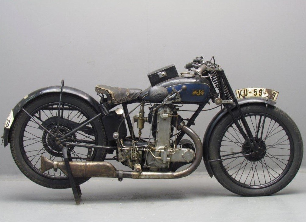 1929 AJS Model M7 350cc-overhead camshaft racing motorcycle right side